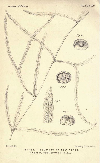 Matonia sarmentosa. Botanical illustration from John Baker's A summary of the new ferns which have been discovered or described since 1874. Oxford : At the Clarendon Press, 1892 (Reprinted from the Annals of Botany, Vol. V, 1891)